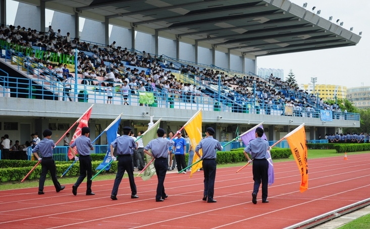 omkl